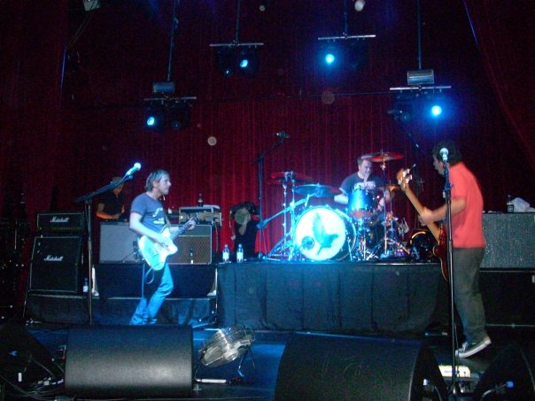 Feeder @ Koko, Camden.